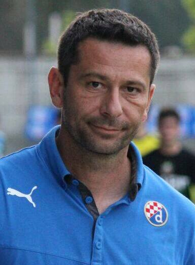 Slika